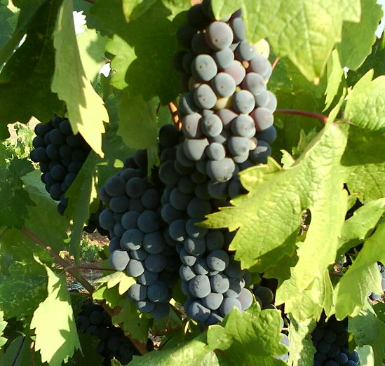 Zinfandel grapes ripening on a vine in Amador county, California